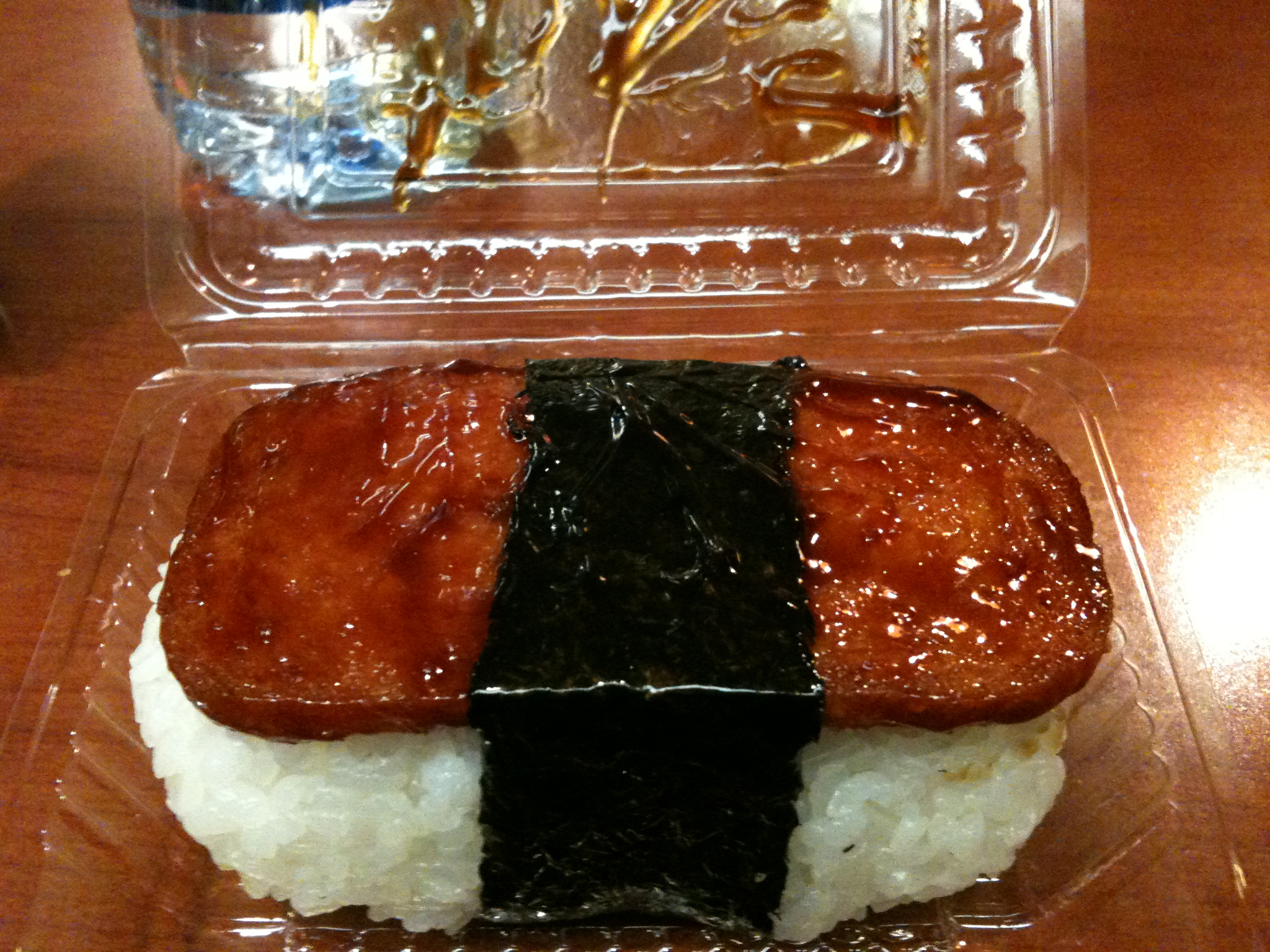 Taken with my iPhone